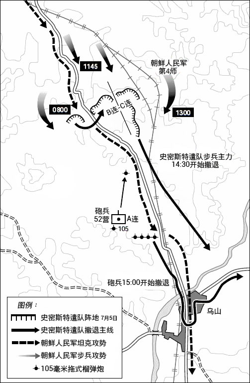 Task Force Smith near Osan, 5 July 1950